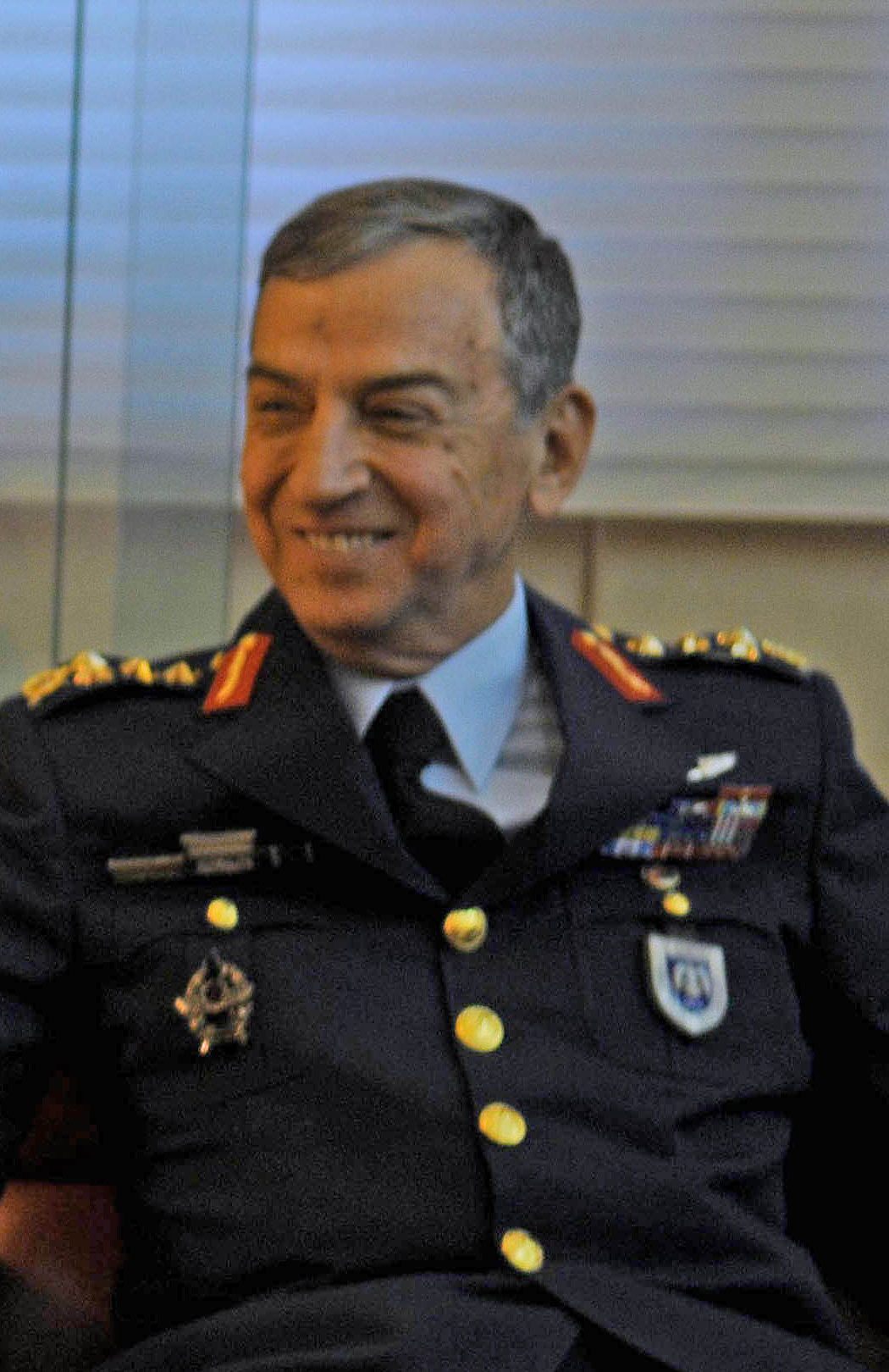 Hasan Aksay, General of Turkish Air Force